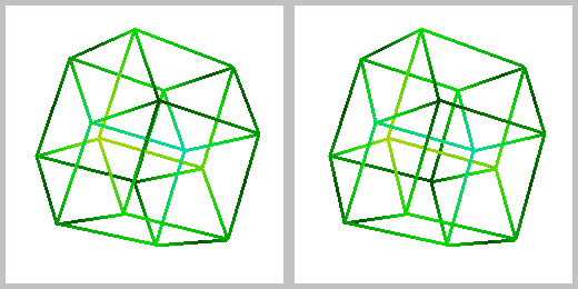 Stereographic image of a tesseract projected in 3 Dimensions